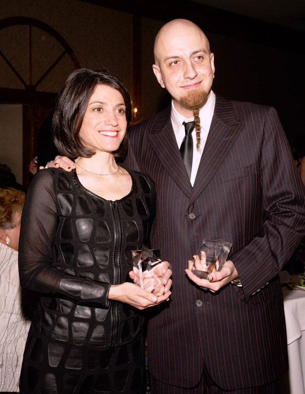 Odadjian with his GenNext Mentorship award